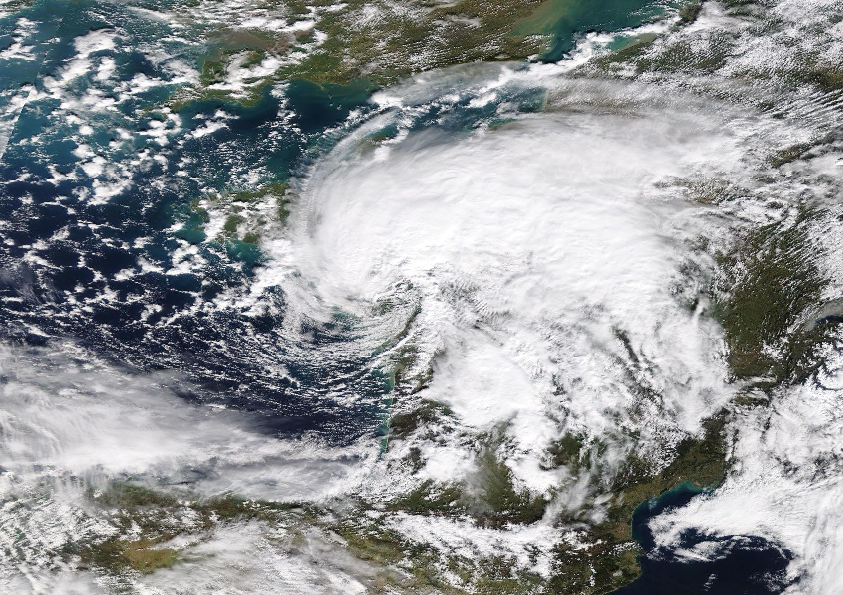 Storm Leon, of the 2019-20 European windstorm season, covering France on 1 March.